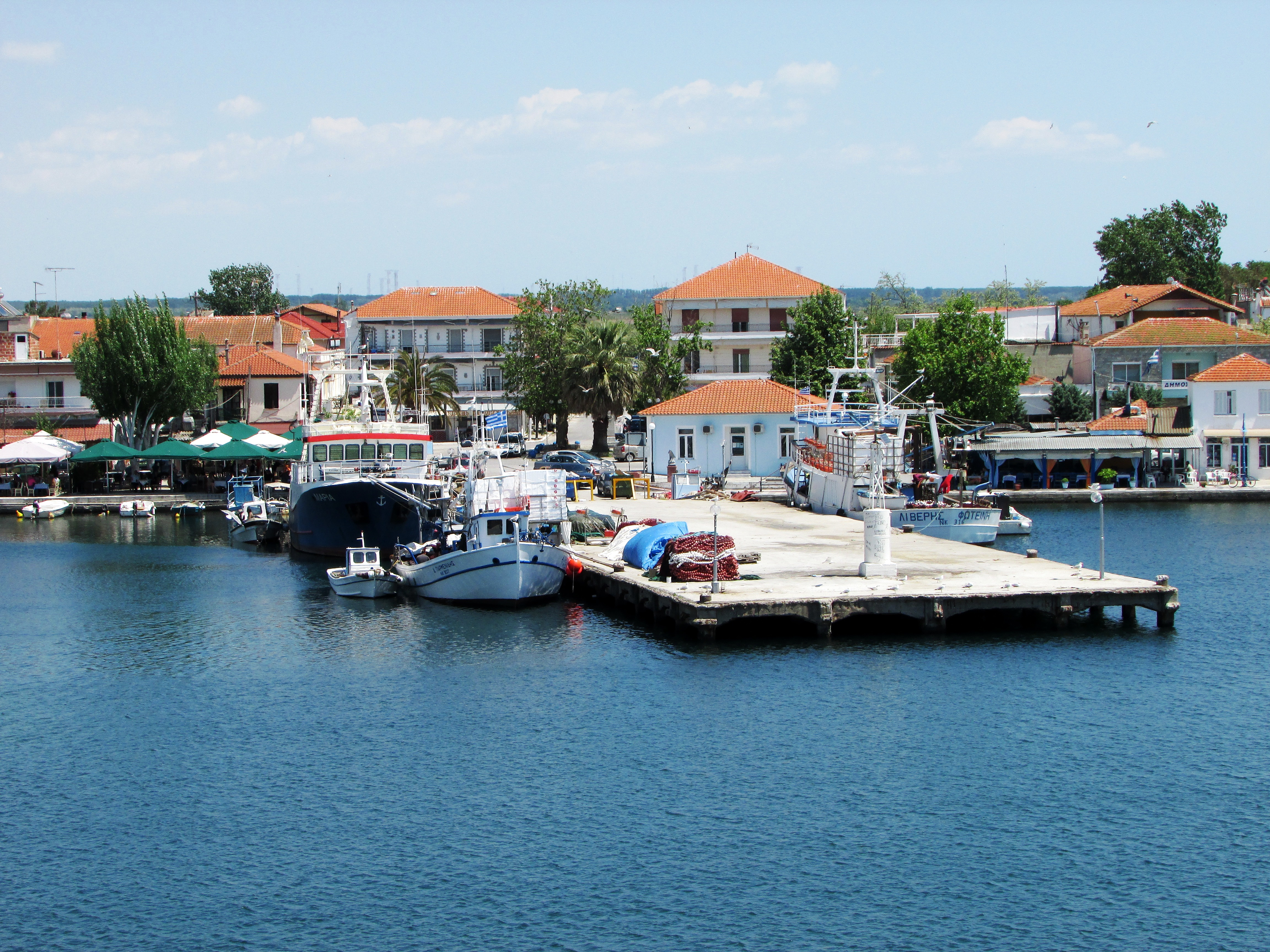 .In the Kavala area of Northern Greece. Where the Thassos ferry departs from.